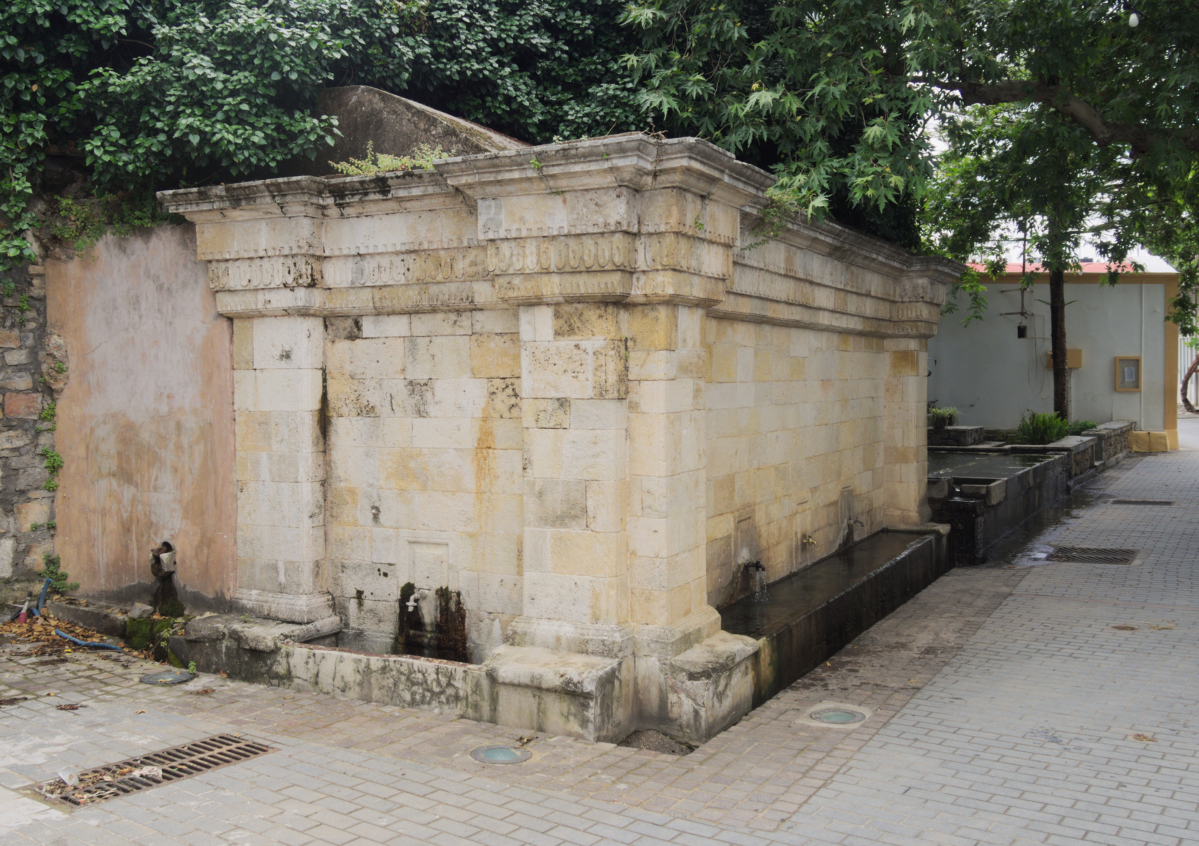 The fountain of Amariano, built in 1898.